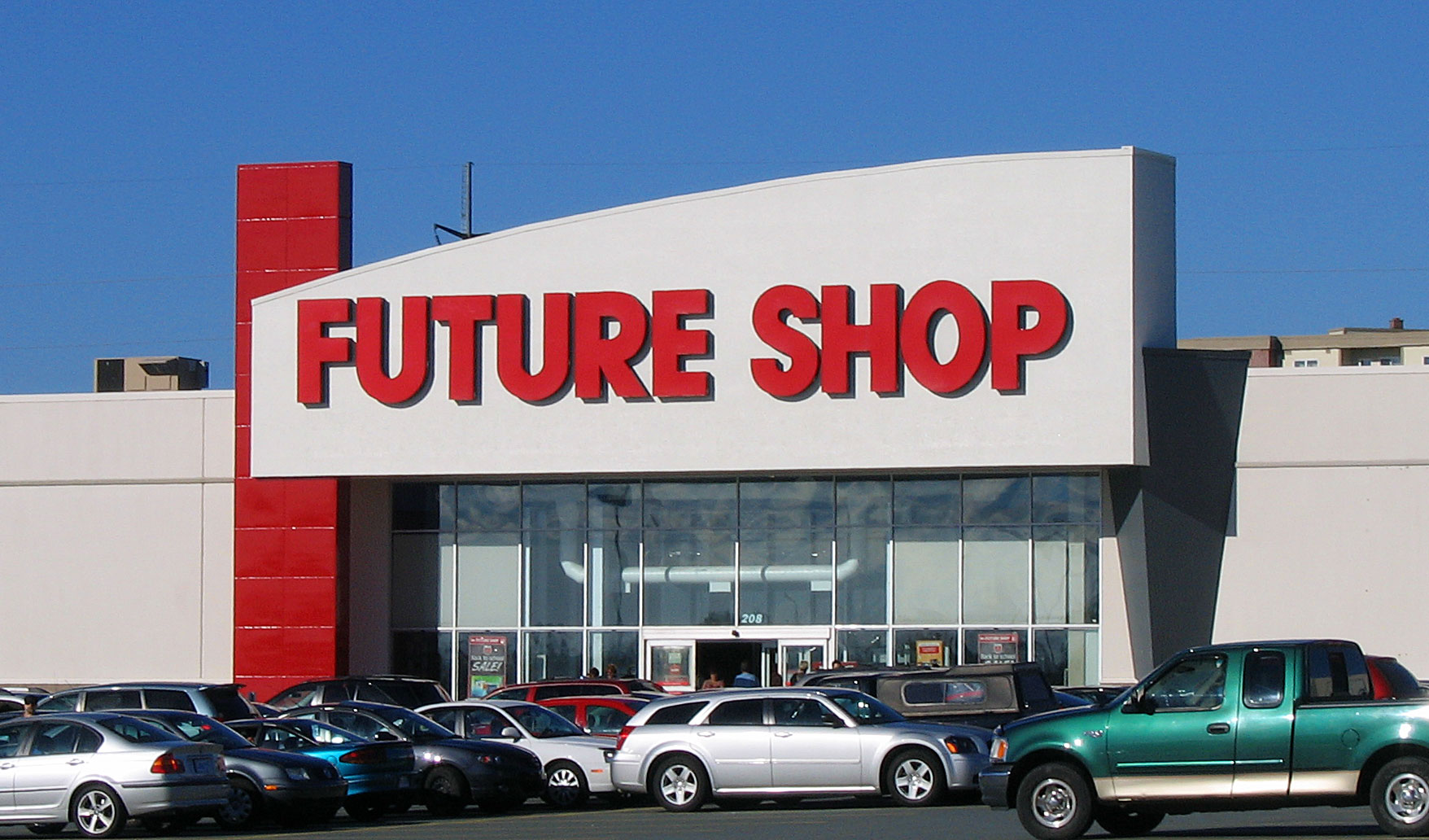 Future Shop, Halifax, Nova Scotia